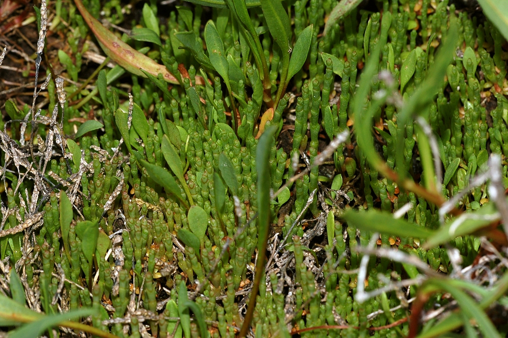 Salicornia ramosissima, Salziger See, Röblingen near Halle/Saale, Germany